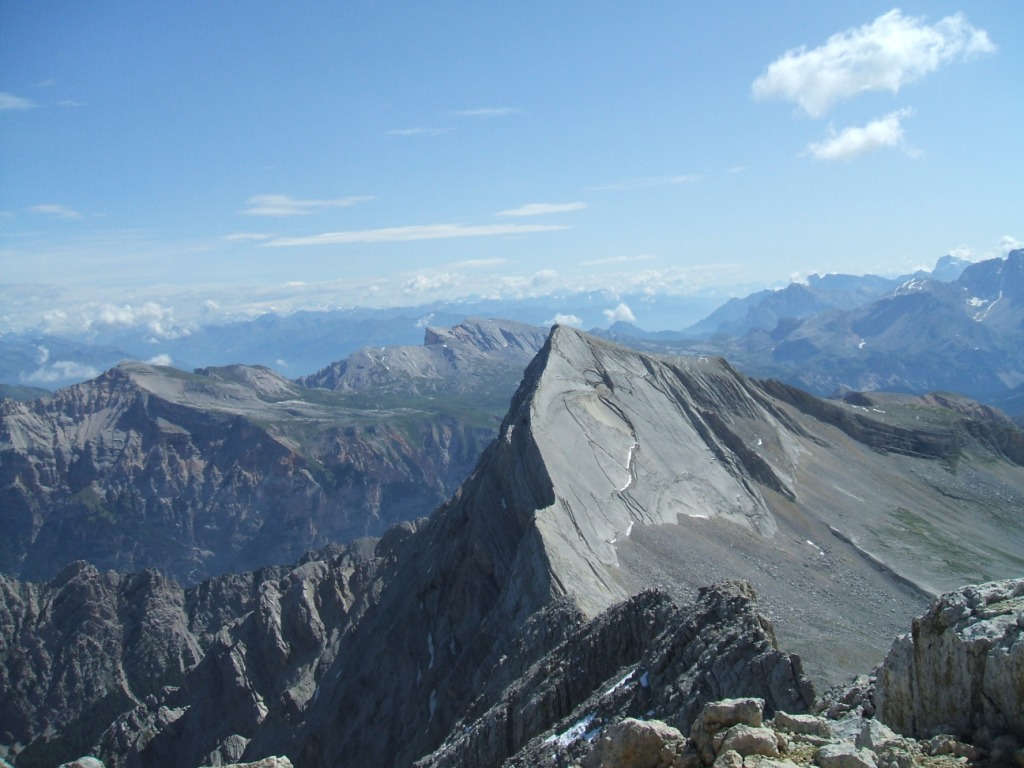 Cima Nove, Dolomiti Fanes